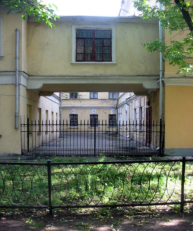 Historic buildings. 32, Prechistenka, Moscow, Russia. A high school since 18th century. Currenly, Art school for children, est.1934.